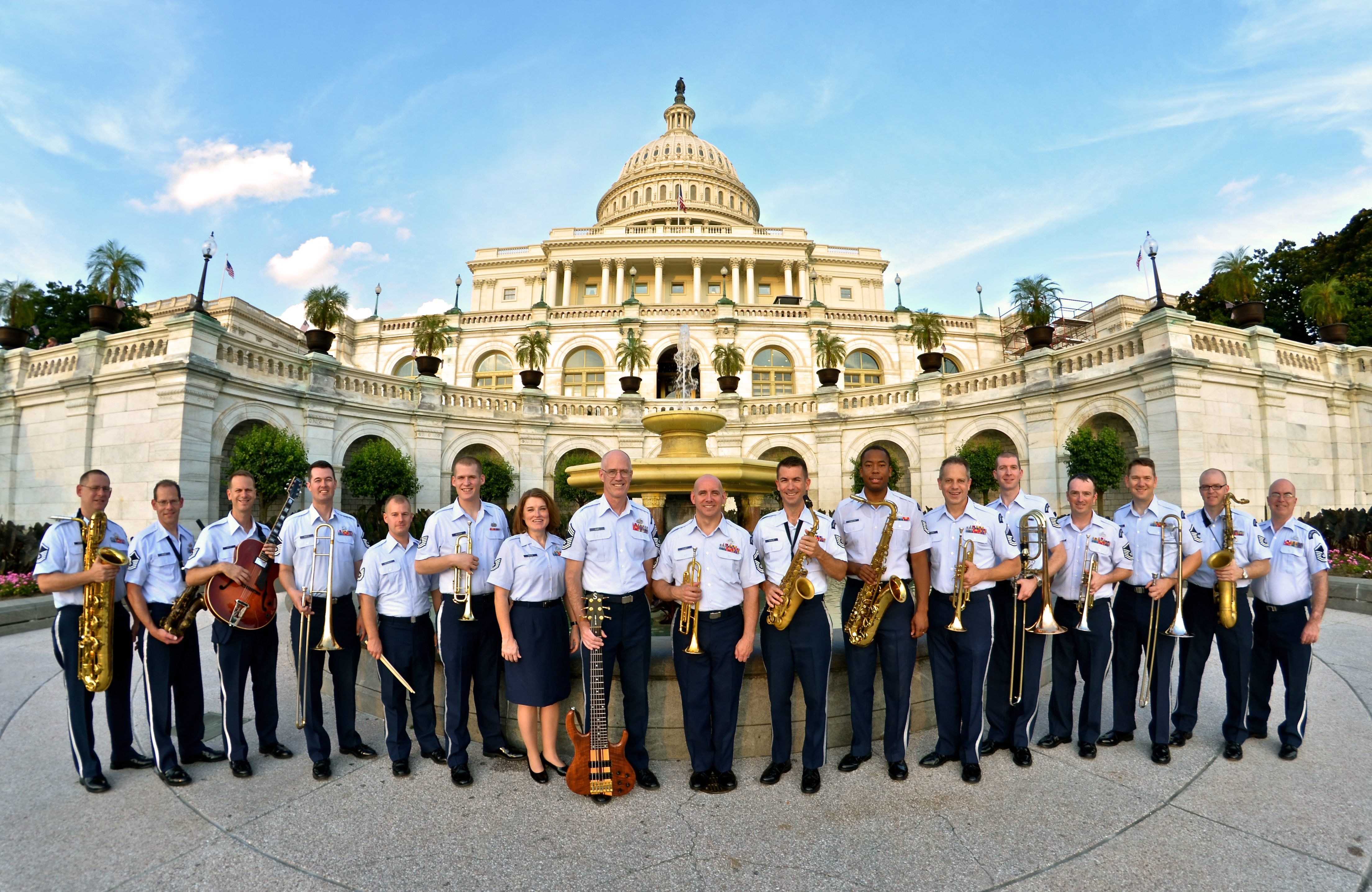 The Airmen of Note is the premier jazz ensemble of the United States Air Force.